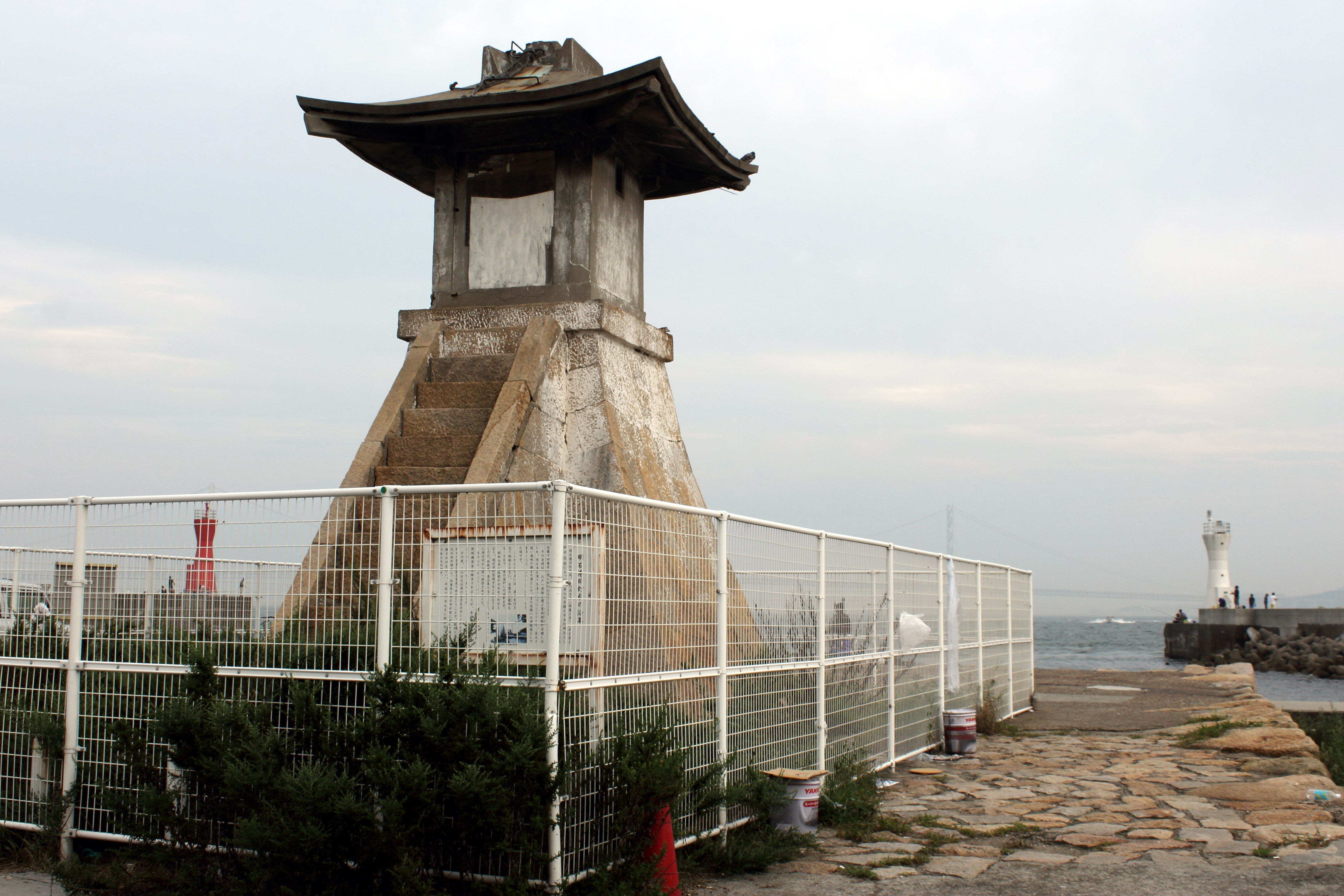 Old Lighthouse at Akashi Port